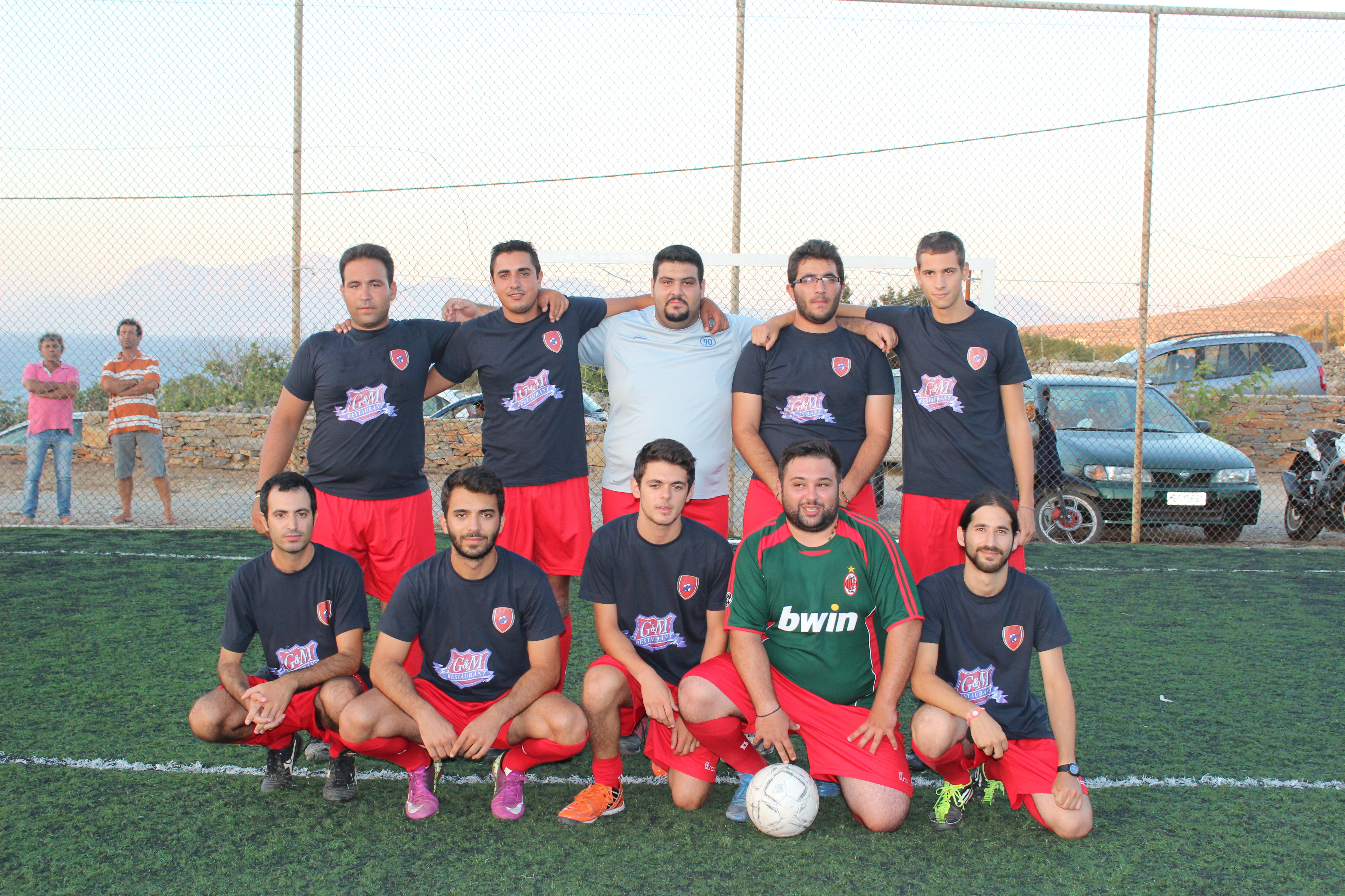 Doxa Arvanitochoriou, August 2012